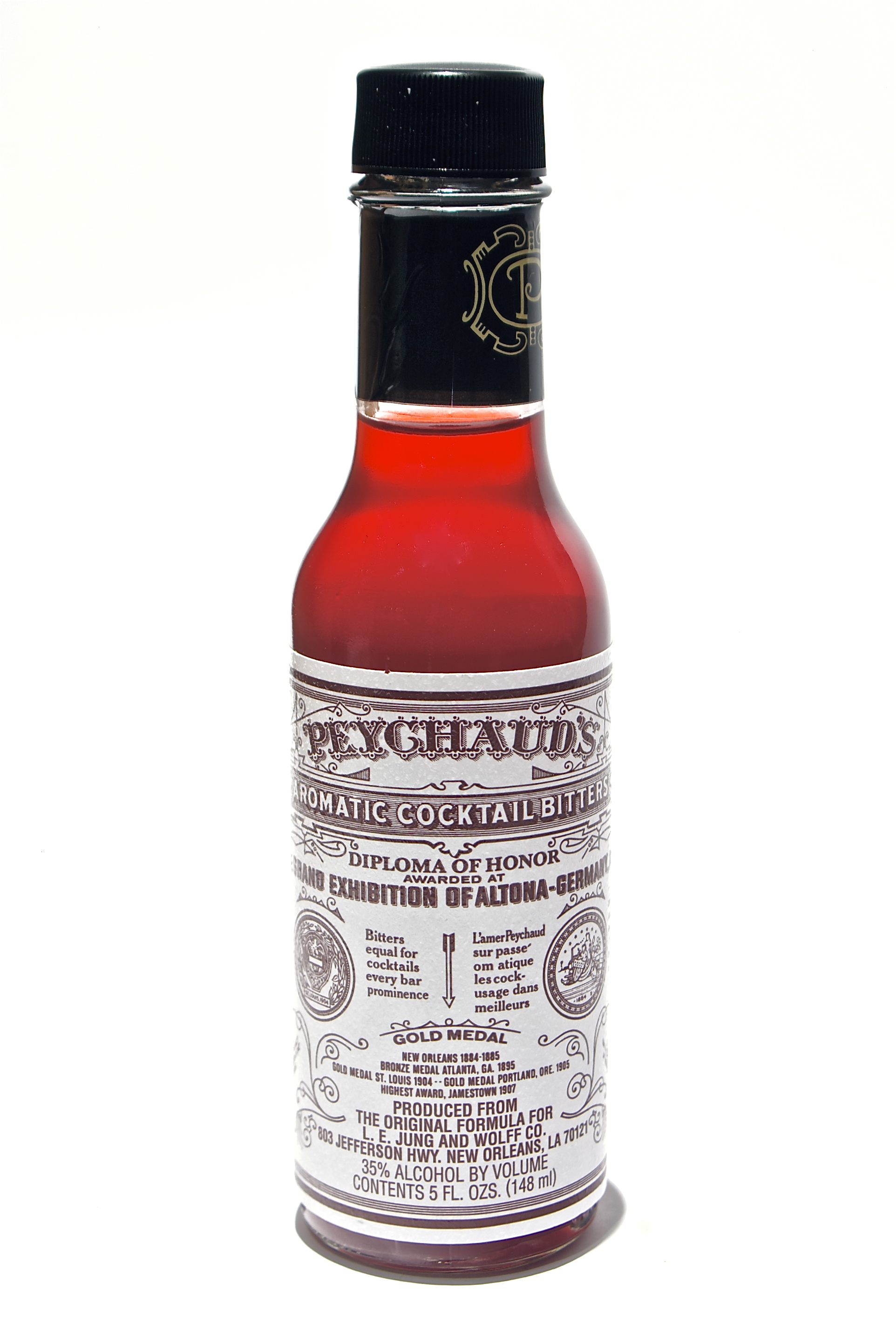 A bottle of Peychaud's Bitters